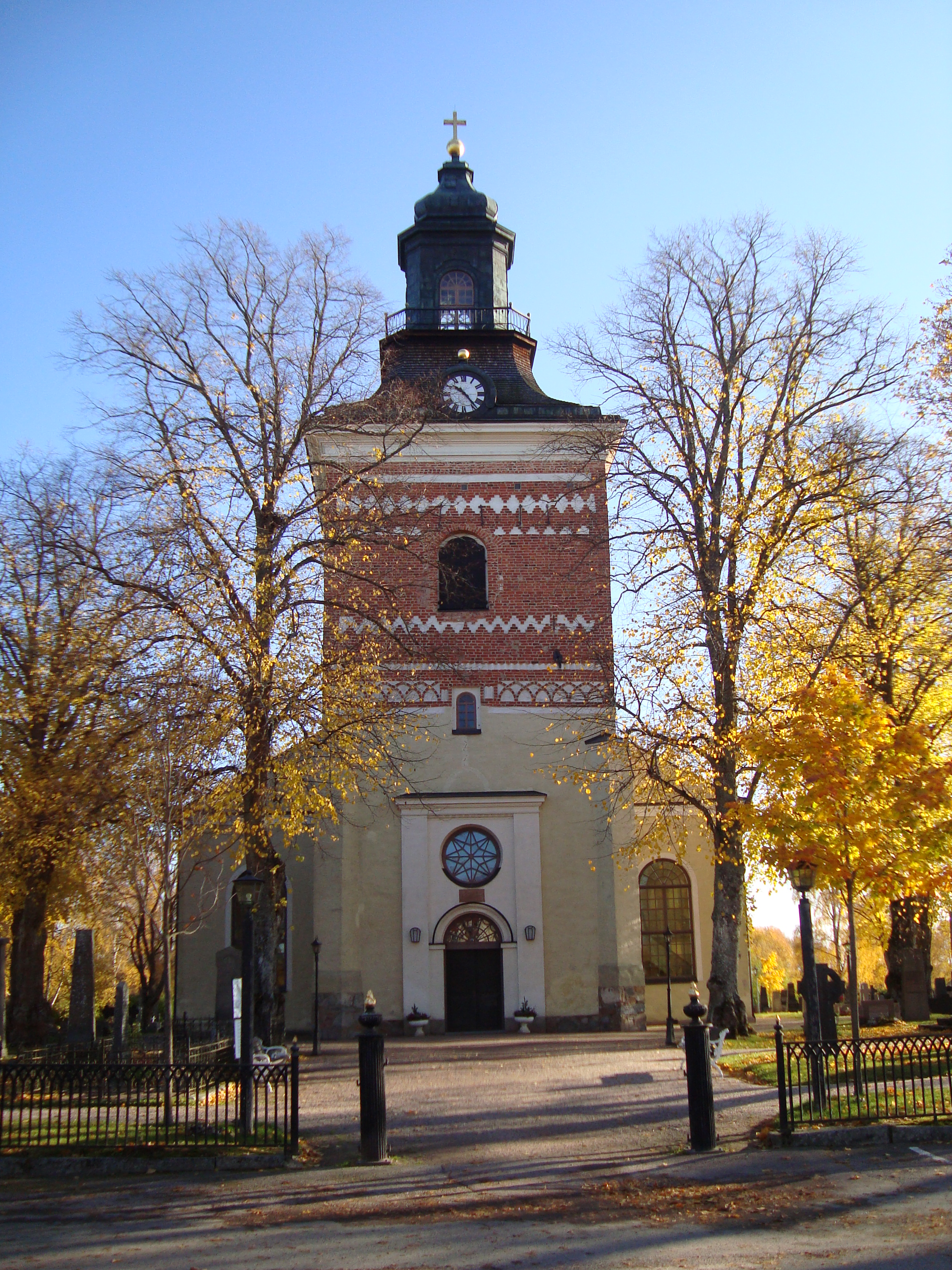 Church of Folkärna, Avesta municipality, Sweden